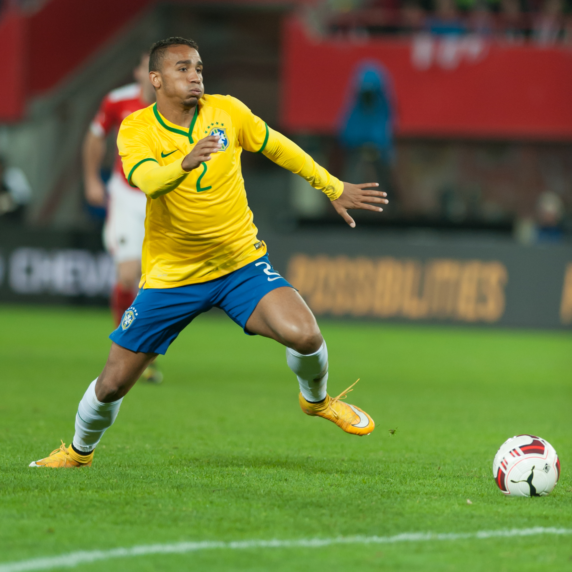 International Friendly Austria - Brazil November 18, 2014: Danilo